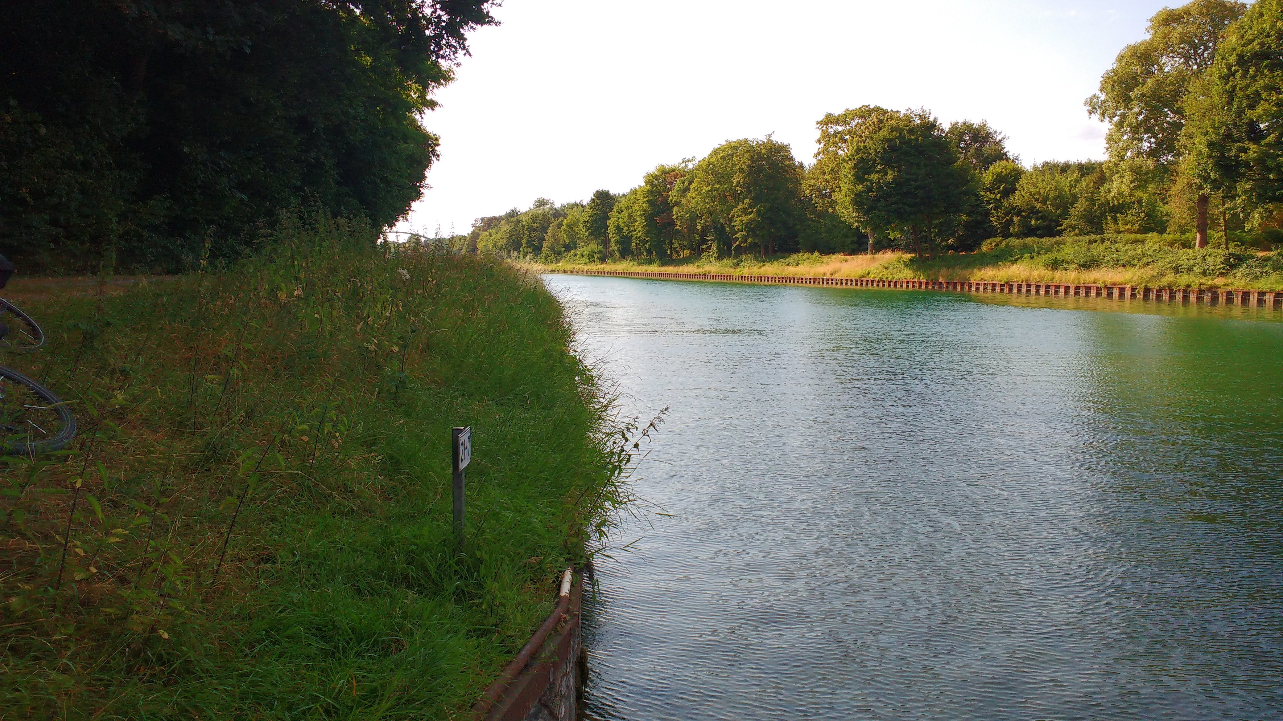 Lippe lippe